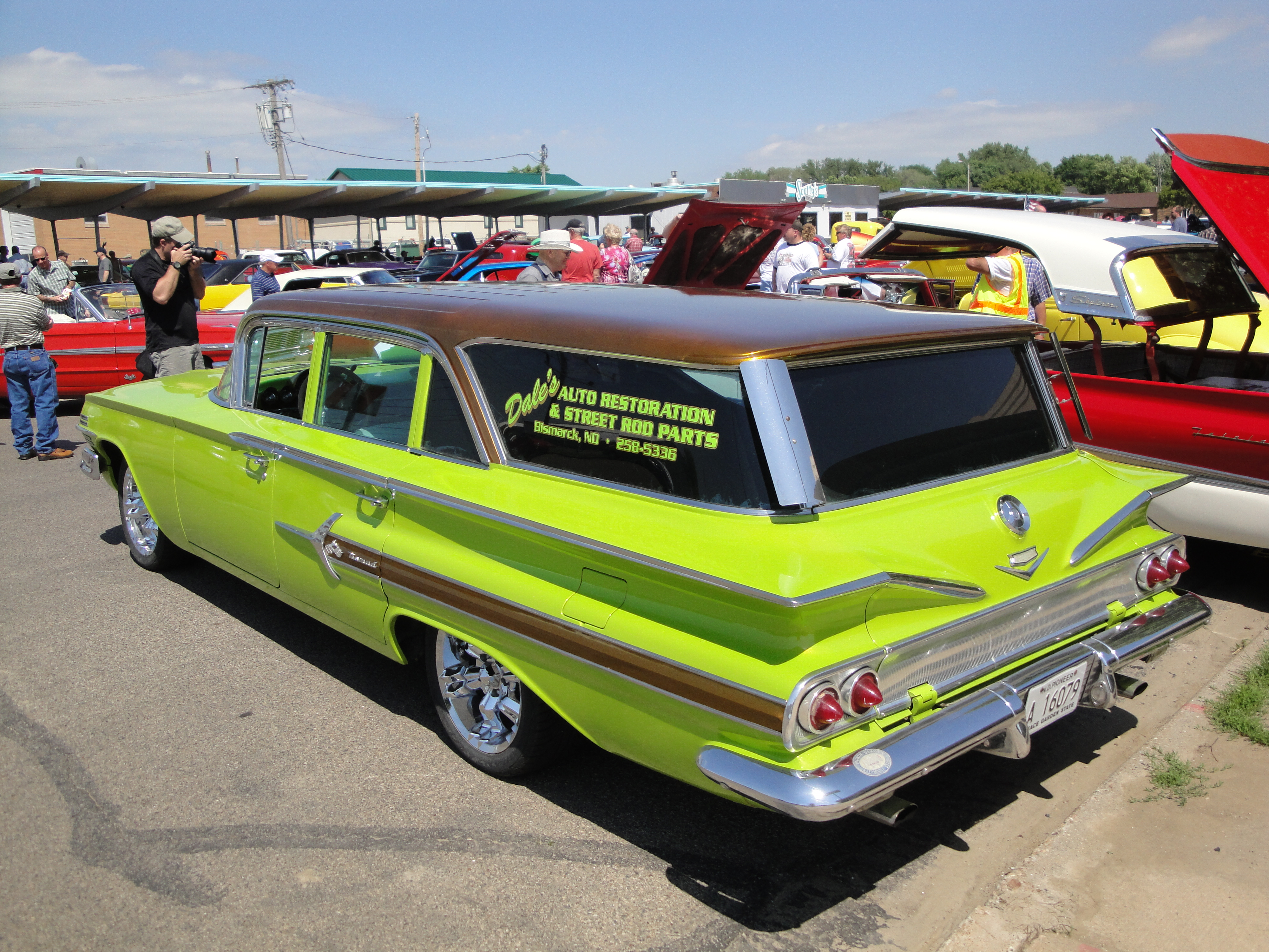 Bismark, North Dakota June 2012